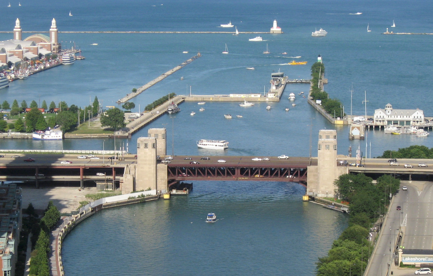 The Outer Drive Bridge (on Lake Shore Drive), in Chicago, with the Chicago Harbor Lock (separating the Chicago River from Lake Michigan) in the background.